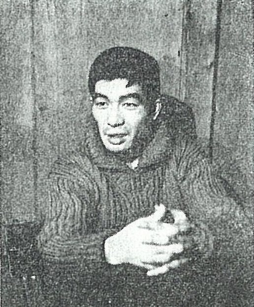 Tetsumi Kudo is a Japanese contemporary artist.